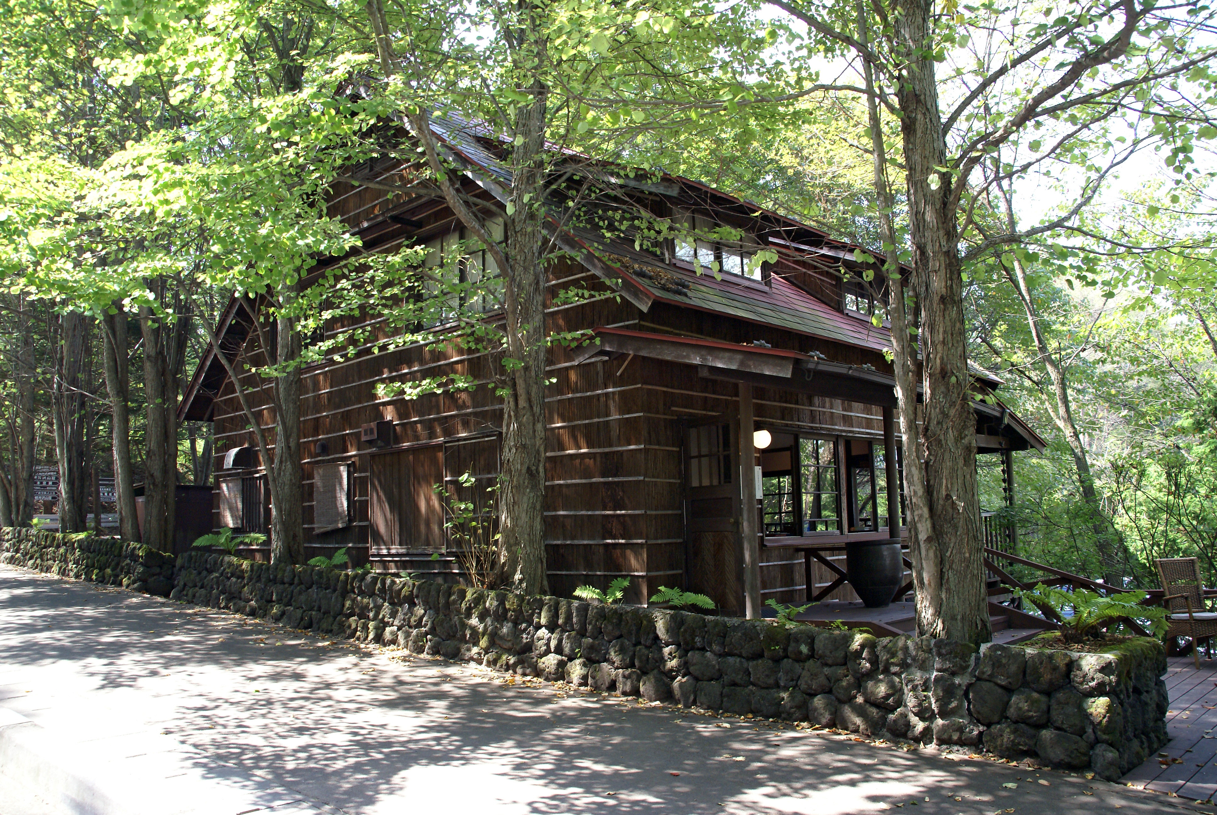 Karuizawa Highland Archives in Karuizawa, Nagano prefecture, Japan